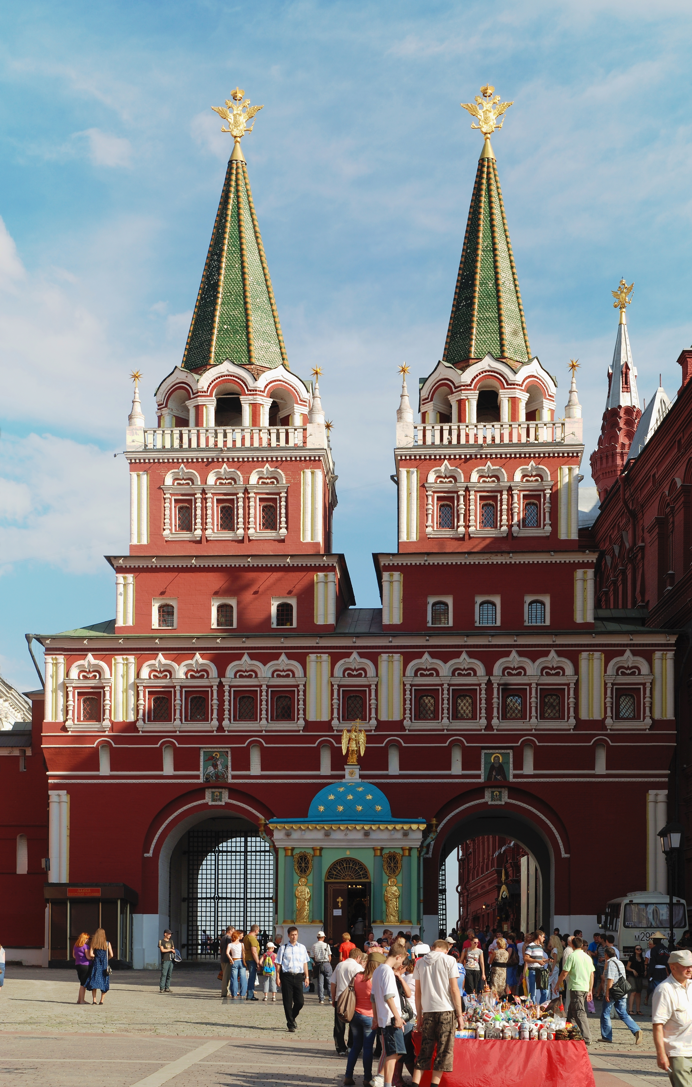 The Resurrection Gate to the Red Square, Moscow